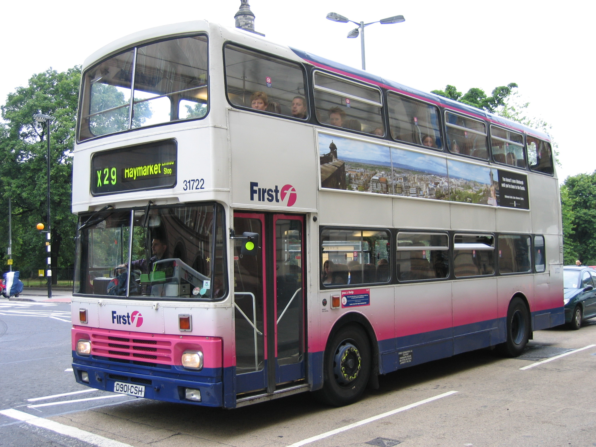 retro Uploadr 2005- D901CSH was new to Lowland Scottish and was one a pair of Alexander bodied Leyland Olympians purchased by this operator. Seen in 2005 with First Edinburgh as fleetnumber 31722 as it works a peak time X29 towards Haymarket.